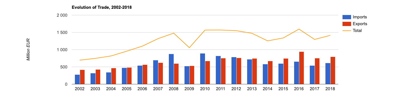 EFTA Trade Balance with SACU, 2002-2018. It shows the total volume of export and import goods from 2002 to 2018.